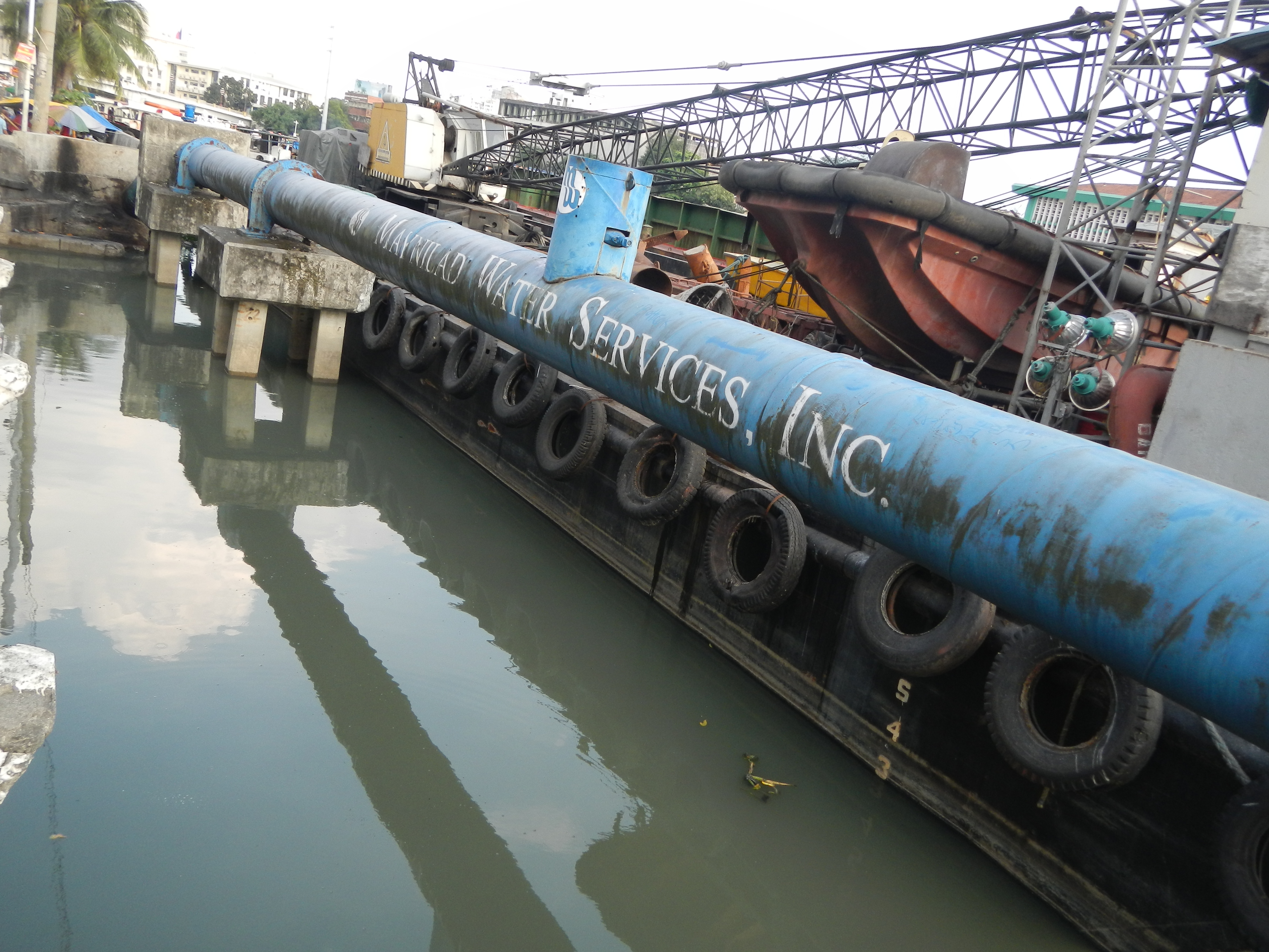 Upload Wizard photos of - the Pasig River[1] in Binondo[2] with the Estero de Binondo [3] one of six major tributaries of Pasig river mentioned in Rizal's Noli Me Tangere Coordinates: 14°35'52"N 120°58'26"E Barangay 282 Zone 26 - part of the List of rivers and estuaries in Metro Manila[4] - with pumps of the Maynilad Water Services [5] Water Delivery Sewerage and Sanitation - Canal de la Reina floodgate [6] Pumping station [7] that end at Muelle de Binondo - the M. dela Industria Bridge, 15 Tons maximum, Pumping Stations, West Metro Manila Flood District, under MMDA, beside the Federation of Filipino-Chinese Chambers of Commerce and Industry, Inc. building and its Monuments beneath the bridge.